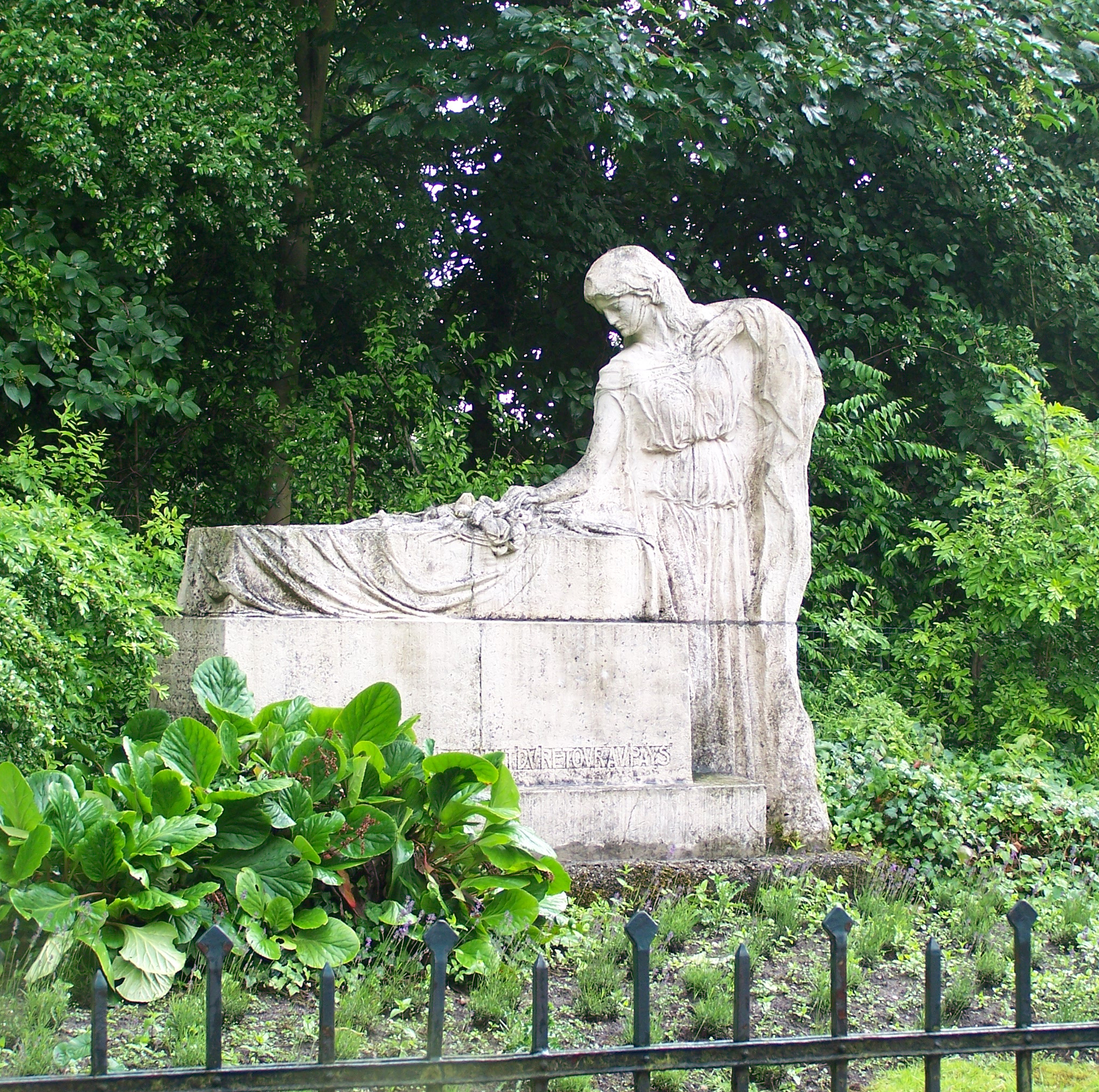 Monument remembering those French refugees who died during their stay in The Netherlands during the First World War. Designed by Huib Luns and sculptured by Charles Vos in 1926. Placed at the corner of the Sint Pieterstraat/Nieuwenhofstraat in Maastricht.